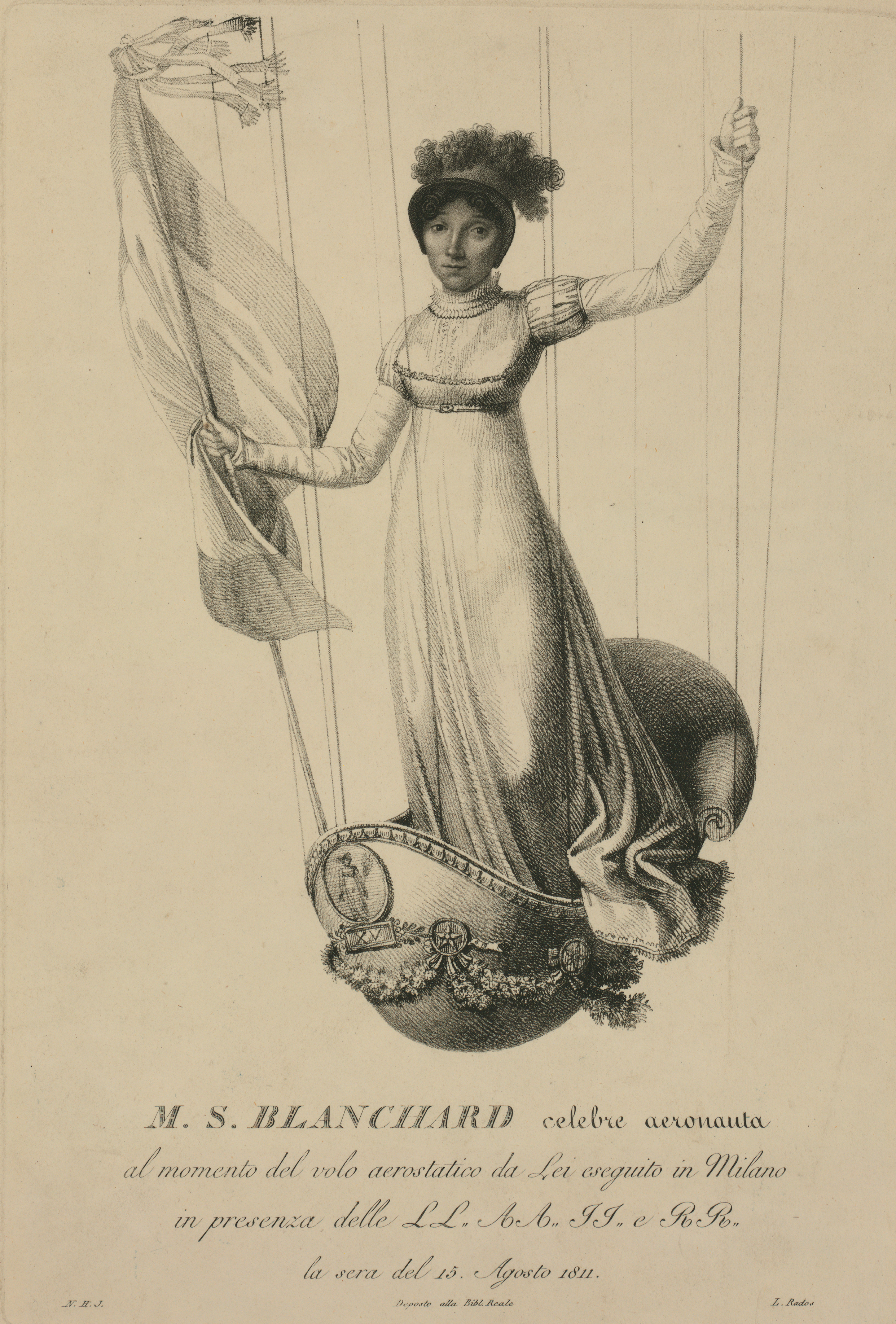 Portrait of French balloonist Sophie Blanchard standing in the decorated basket of her balloon during her flight in Milan, Italy, in 1811, in the presence of the imperial and royal highness.